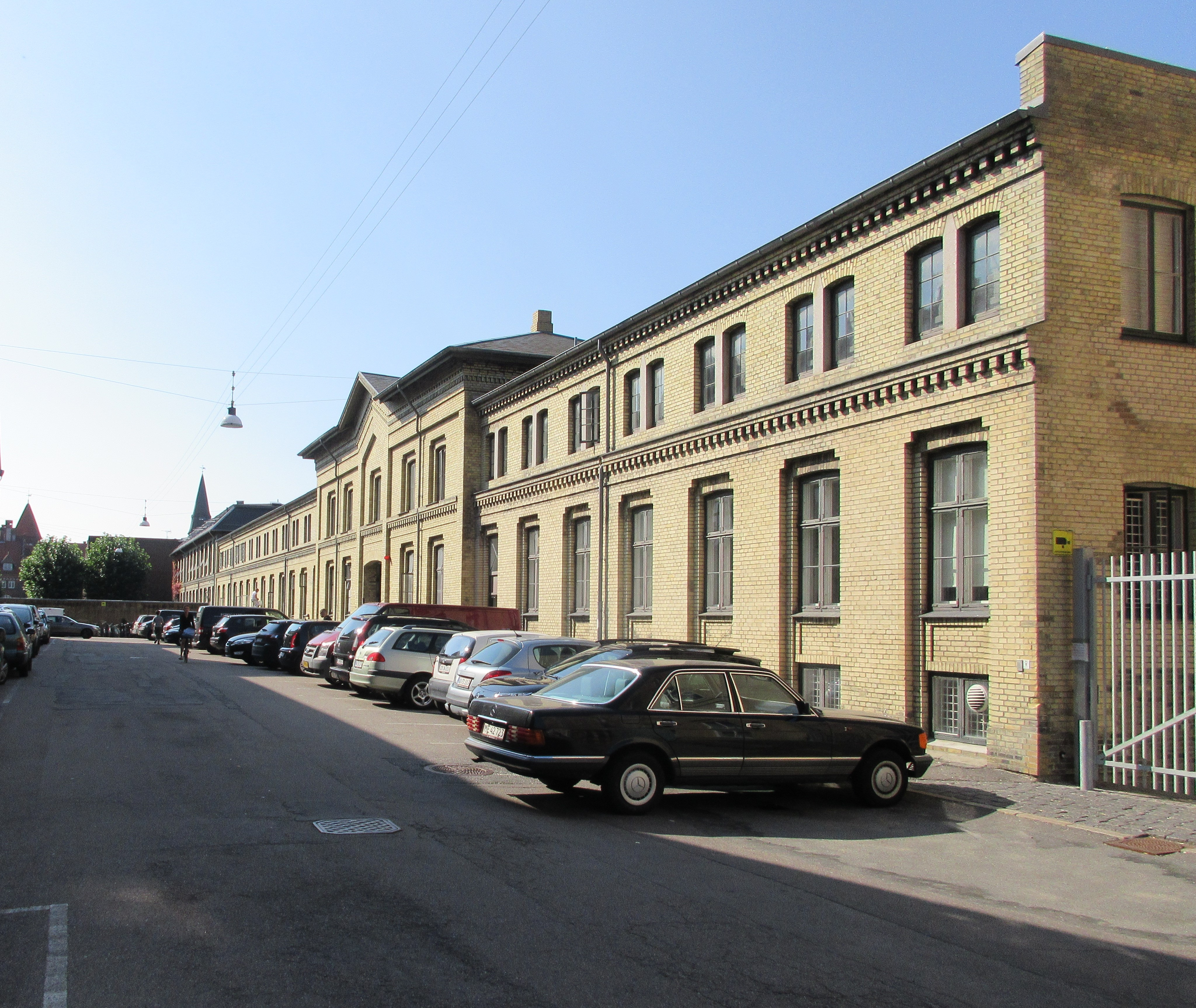 Holger Petersens Manufakturvarefabrik